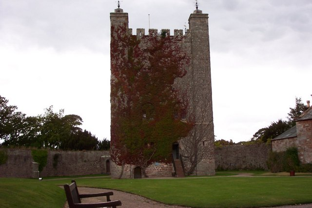 Caesar's Tower inside Appleby castle